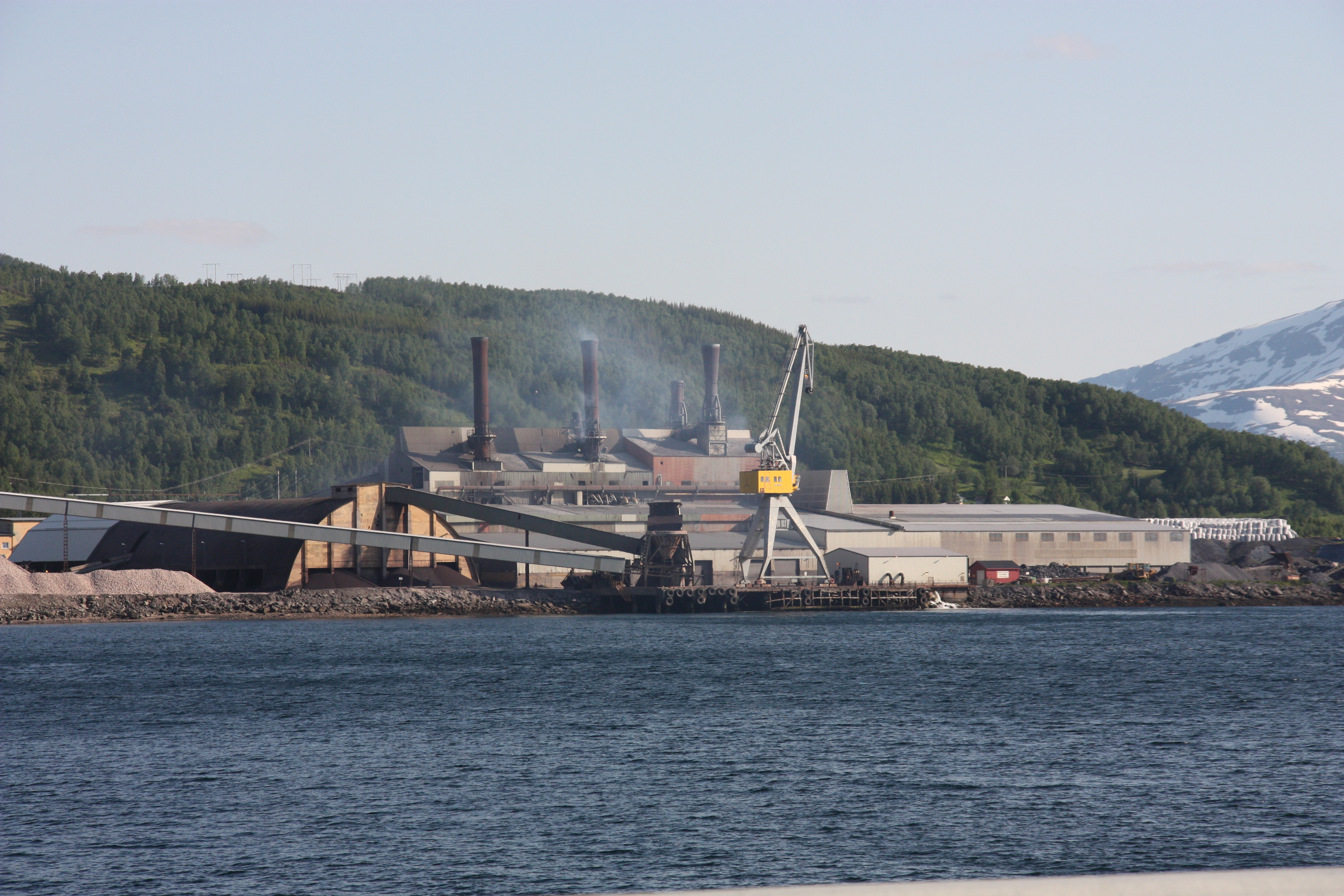 Finnfjord smelteverk in Finnfjordbotn in Lenvik, Norway.